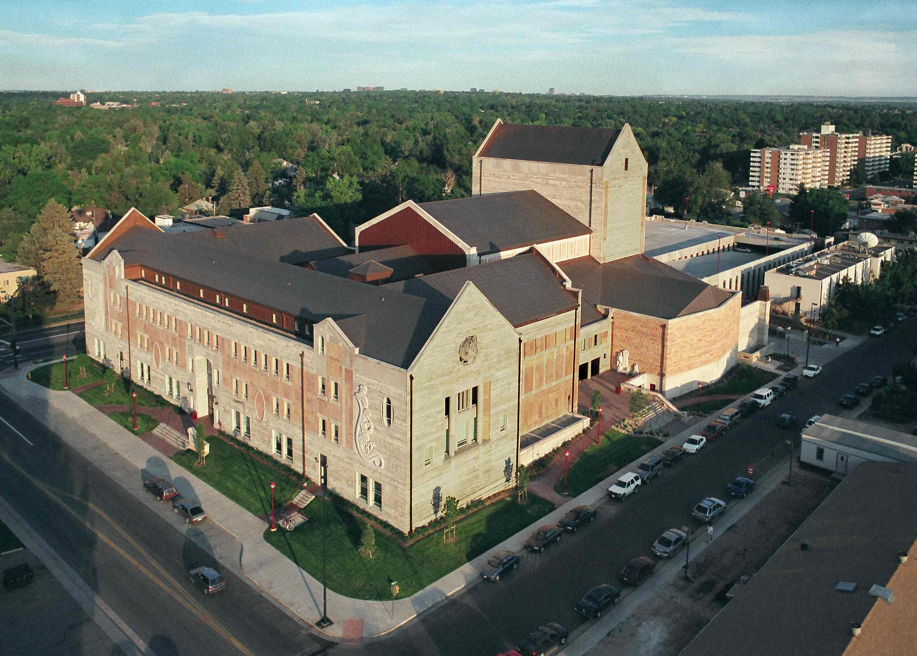 Newman Center for the Performing Arts, Univ. of Denver